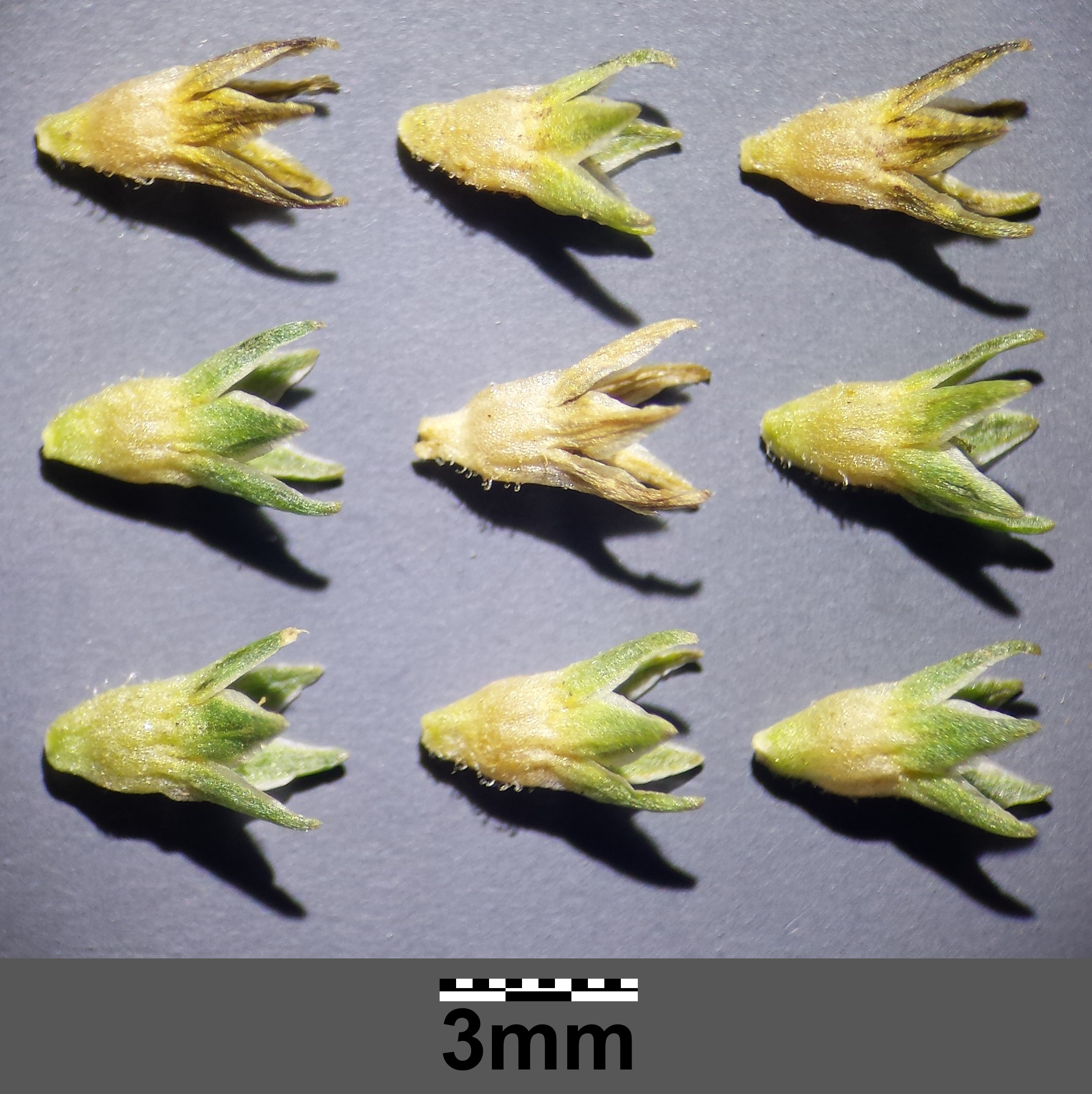 Spurious fruits Taxonym: Scleranthus annuus s. str. ss Fischer et al. EfÖLS 2008 ISBN 978-3-85474-187-9 Location: near Heumühle next to Rappottenstein, district Zwettl, Lower Austria - ca. 700 m a.s.l. Habitat: gritty place (crystalline rock)